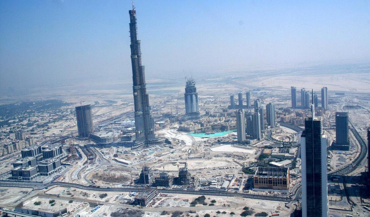 Downtown Dubai seen on 18 October 2007 from a helicopter ride courtesy of Nakheel.